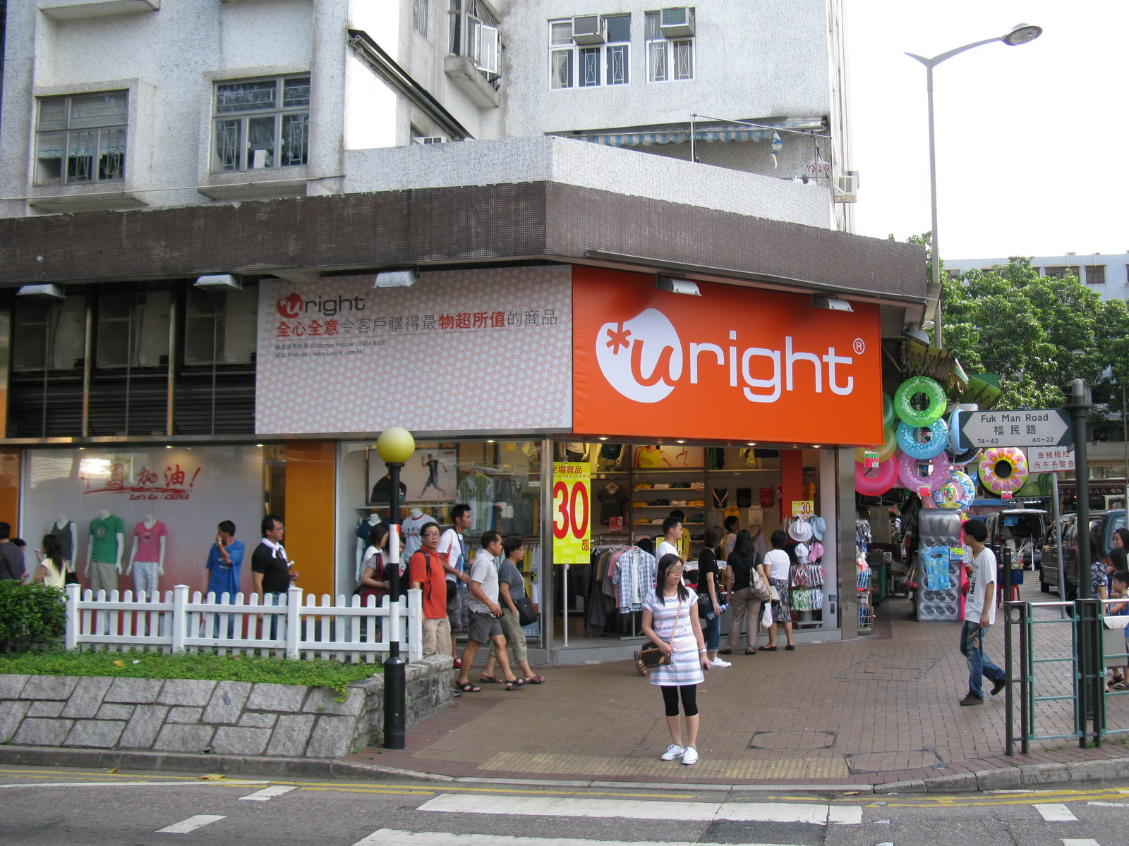 U-Right Sai Kung Store, Fuk Man Road, Sai Kung